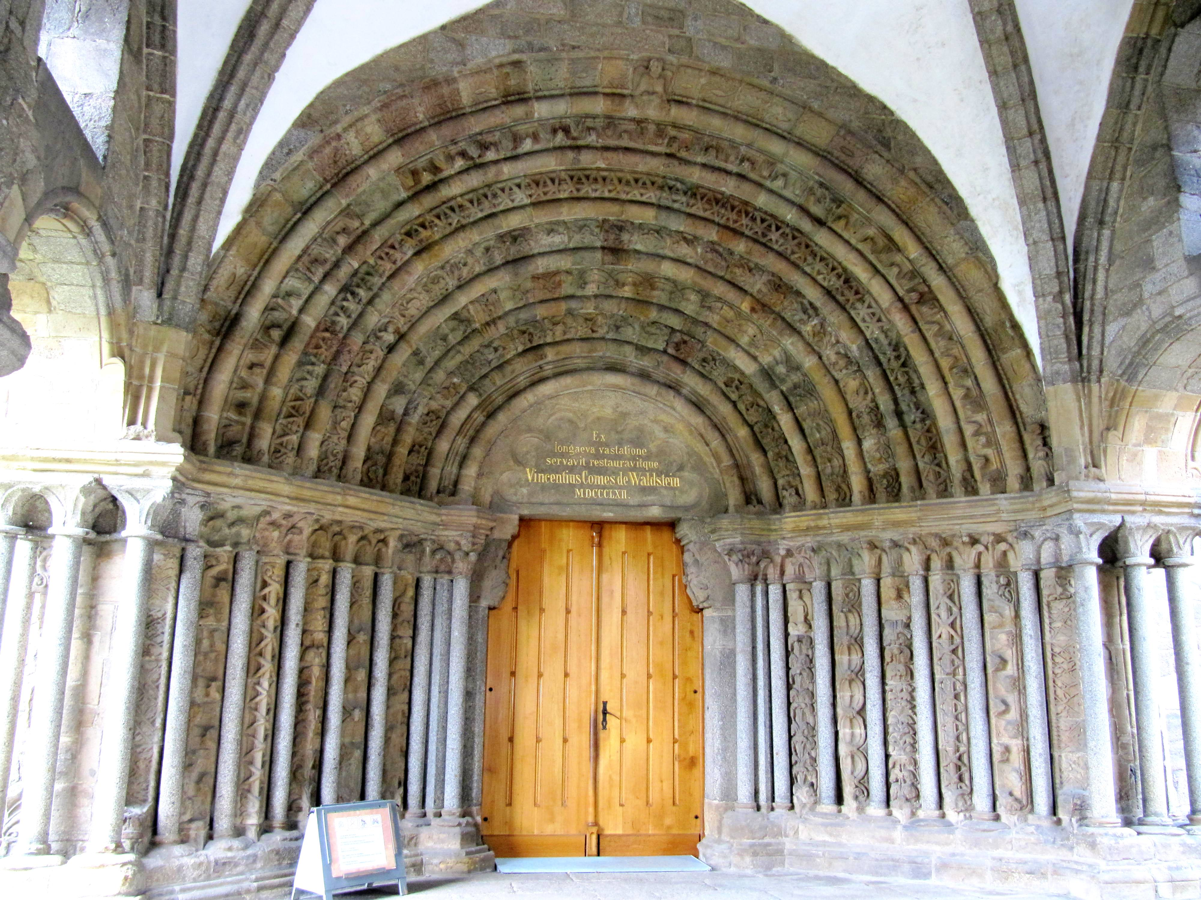 Třebíč, Czech Republic. Basilica of Saint Procopius.